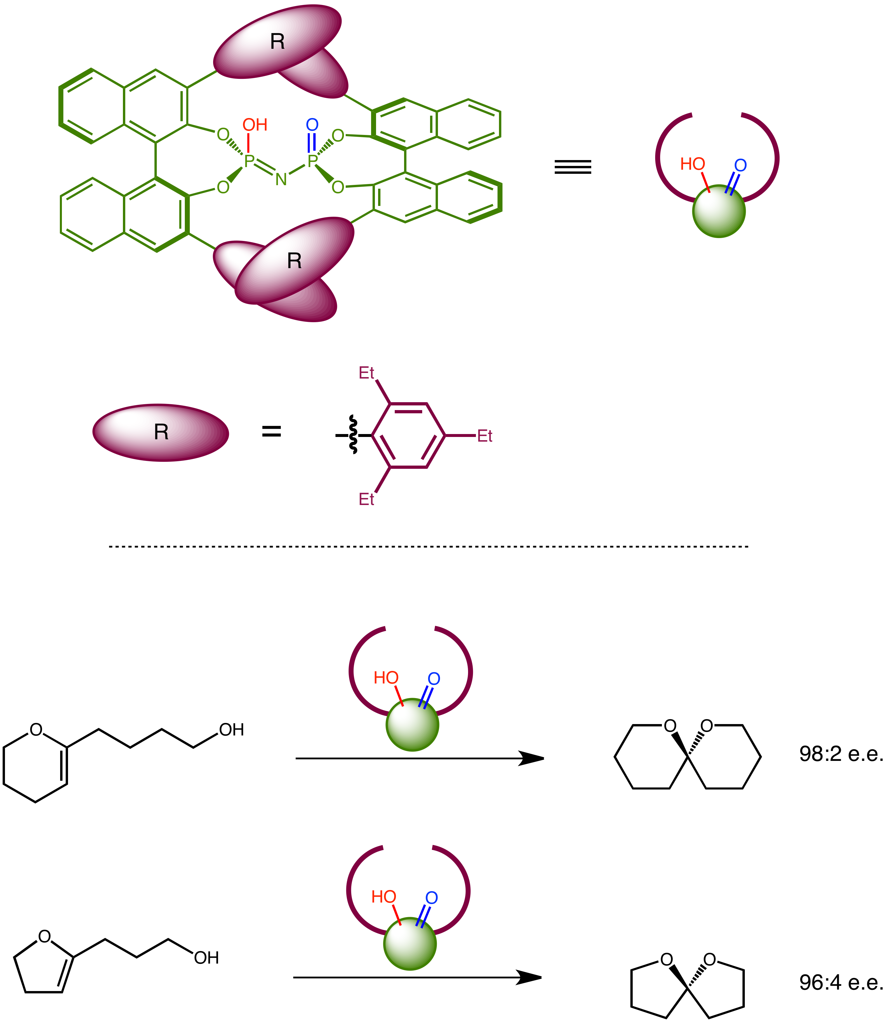 A chiral constrained Bronsted acid developed by Benjamin List works as an asymmetric spiroacetalization catalyst.